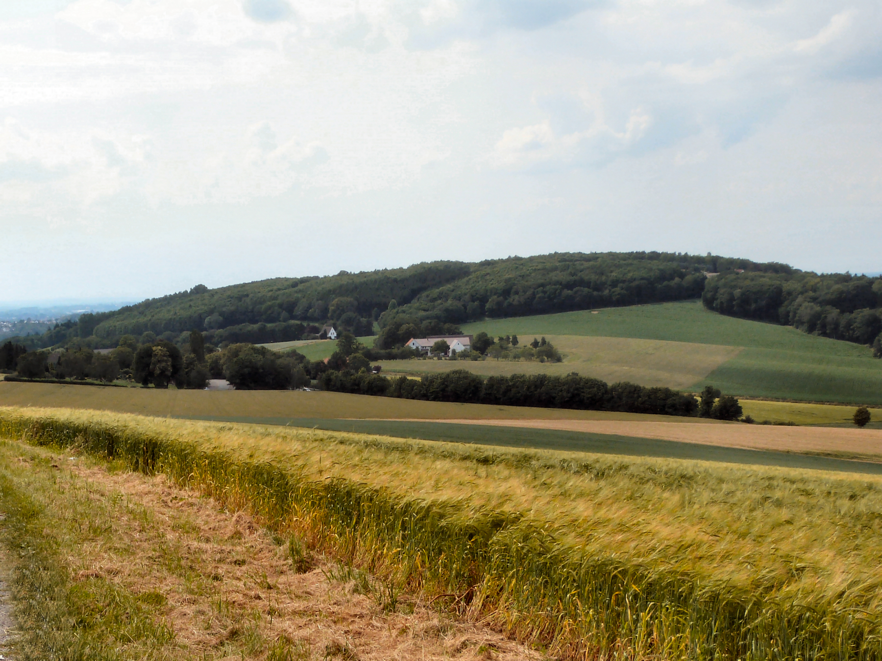 View of the Herford district Falkendiek, in light of Homberg (South View)